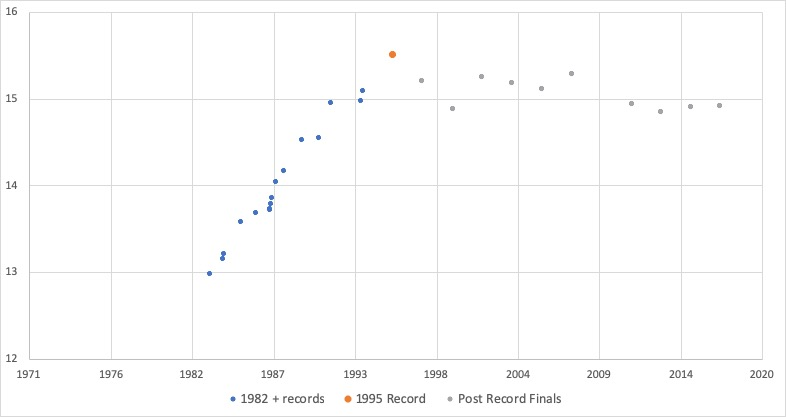 Women's triple jump progression showing improvement from the early eighties up until the record set in 1995 followed by the recorded world championship finalist results thereafter.